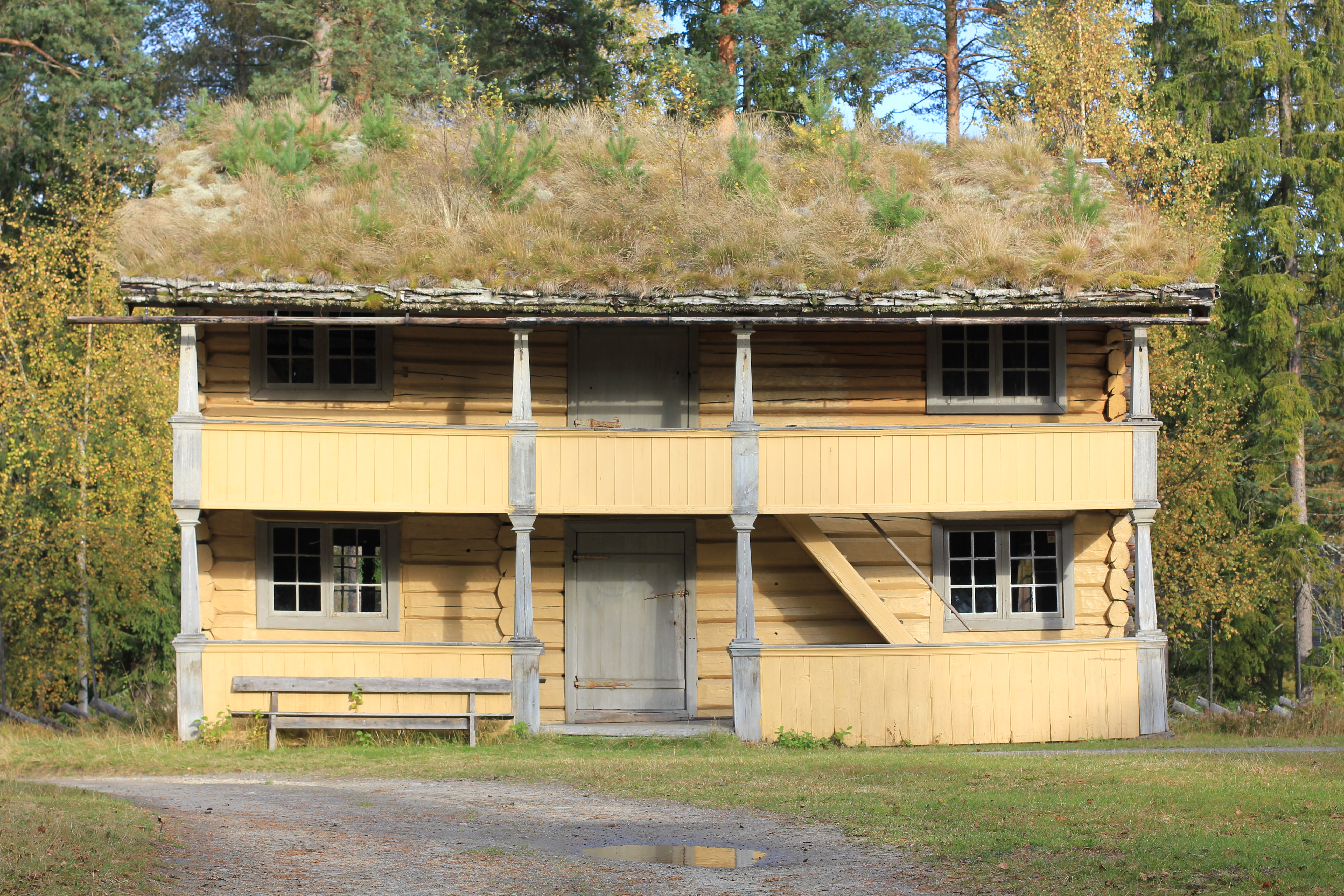 Beautiful yellow timber house.